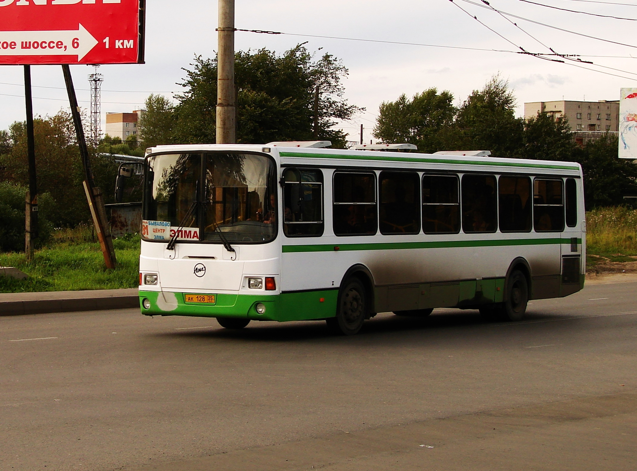 LiAZ-5256.46 Vologda